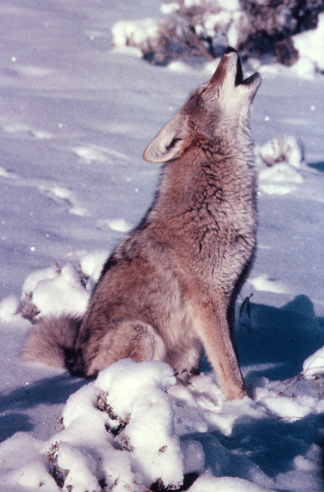 Coyote Howling, Yellowstone National Park